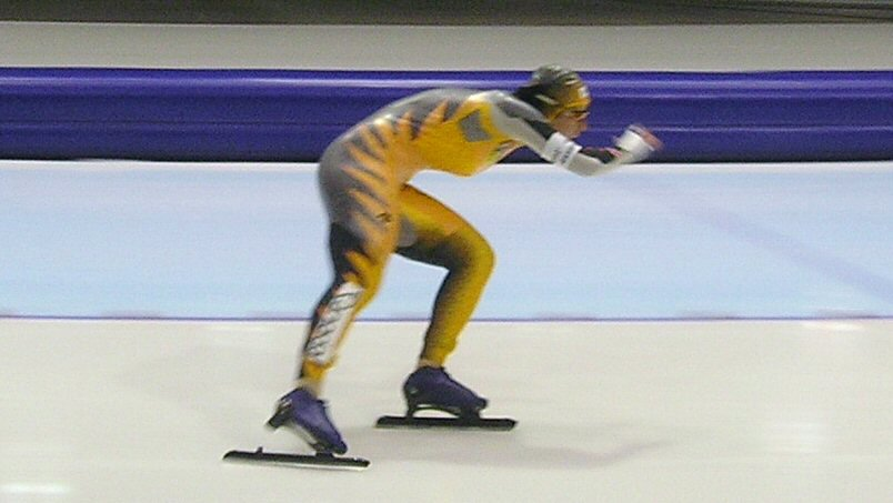 Christine Nesbitt (CAN) at a World Cup in Thialf (Heerenveen, The Netherlands)